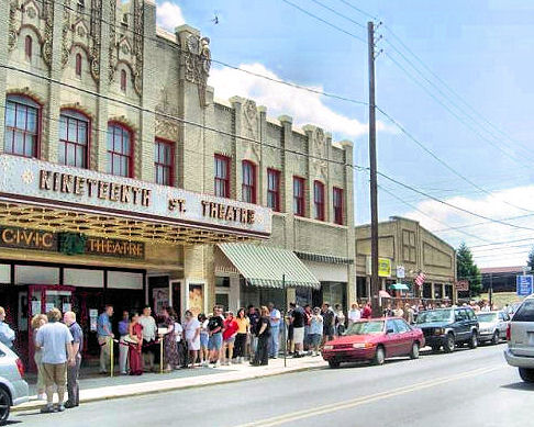 19th Street Theater, Allentown, Pennsylvania, May 2004 The Nineteenth Street Theater opened as a Cinema in 1927. In 1957, it was purchased by the Allentown Civic Little Theater and today it presents both stage productions by the CLT and motion pictures.